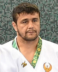 Judo at the 2017 Islamic Solidarity Games